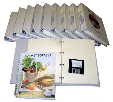 Finnisch cookbook Sormet sopassa (10 binders) in Braille, large format and electrocic shape.